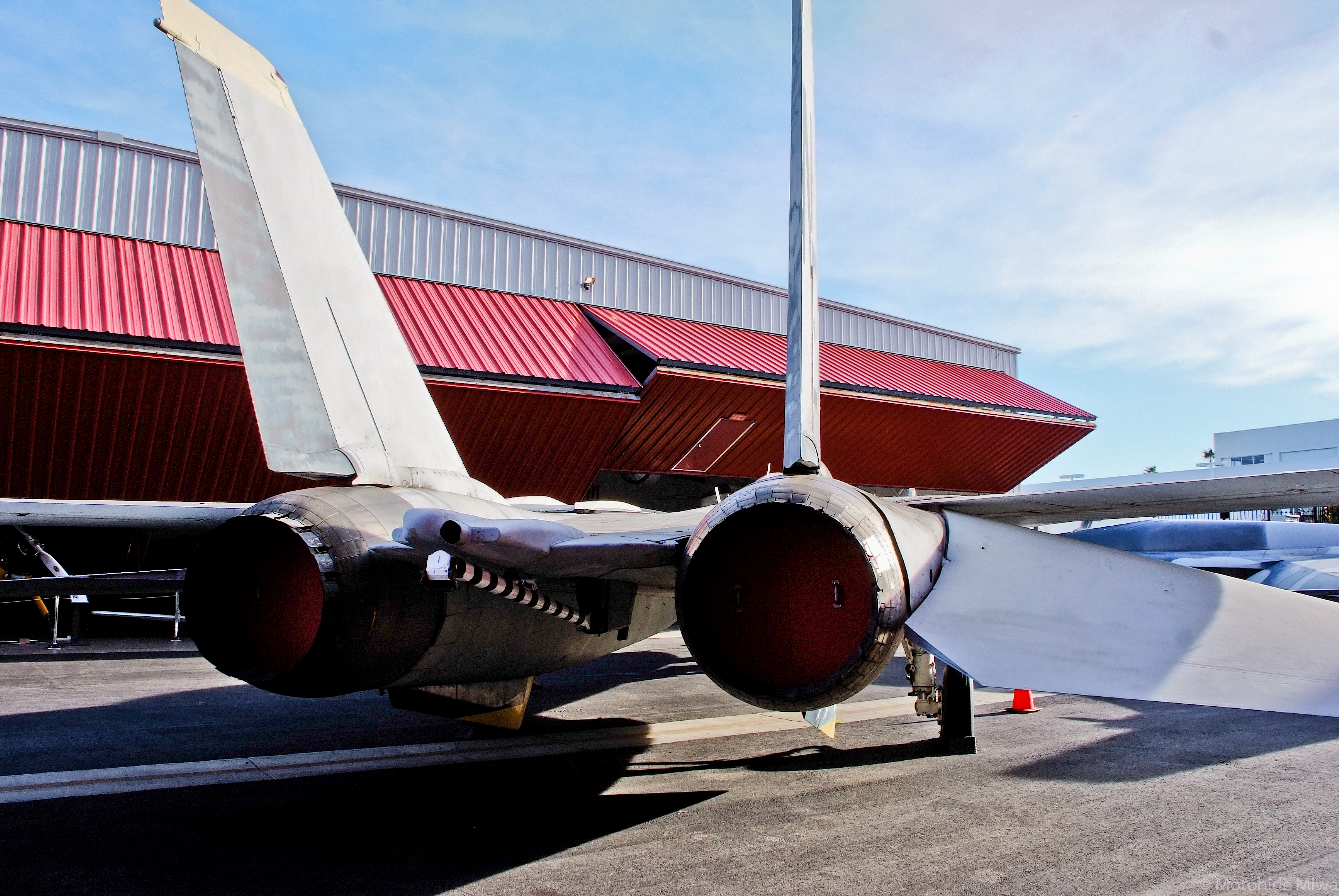 F-14 Tomcat